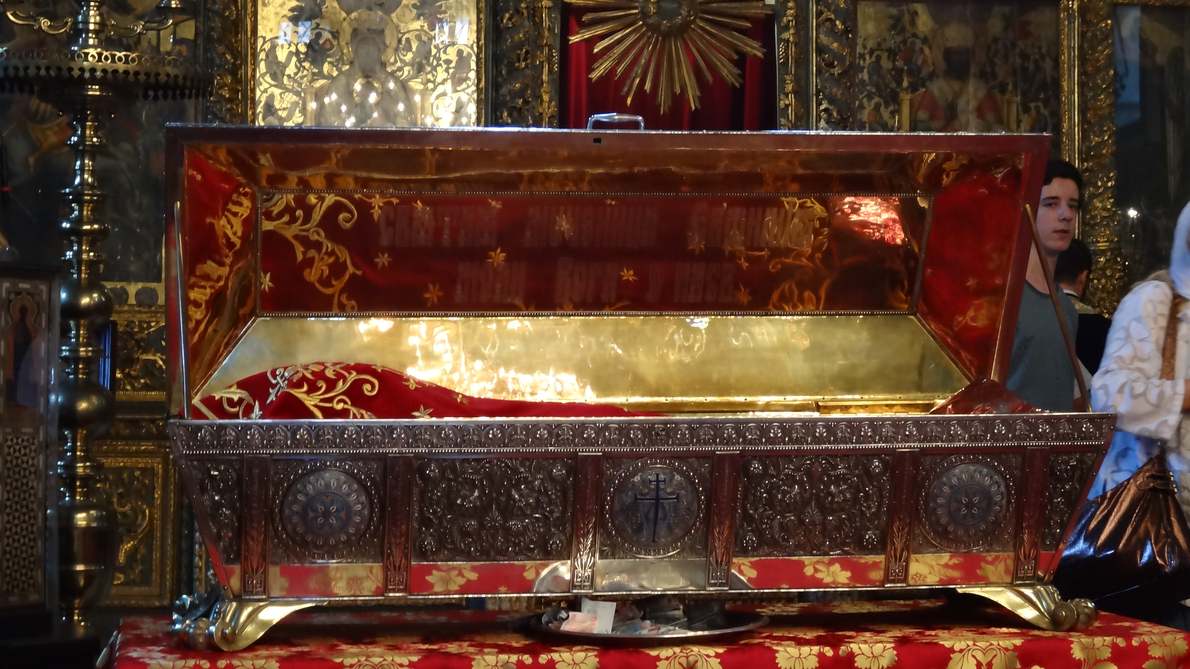 Reliquary of Saint Euphemia, Hagios Georgios (Patriarchate) Church, Istanbul, Turkey; photo taken on saint's feastday, July 11, 2012